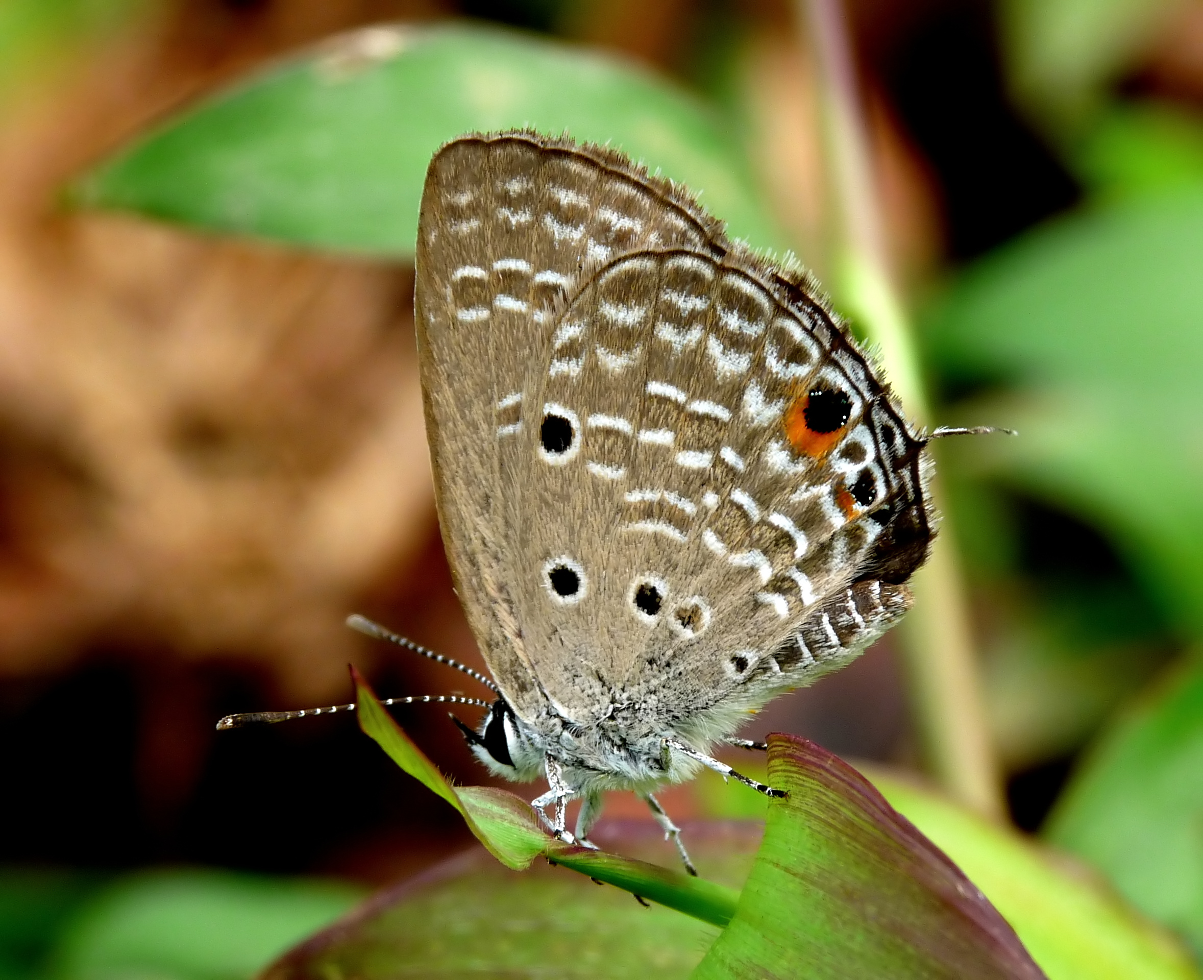 The Plains Cupid, Chilades pandava, is a species of blue butterfly found in India. They are among the few butterflies that breed on plants of the cycad family. Taken at Kadavoor, Kerala, India.